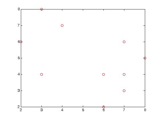 Figure 1.1 – distribution of the data.